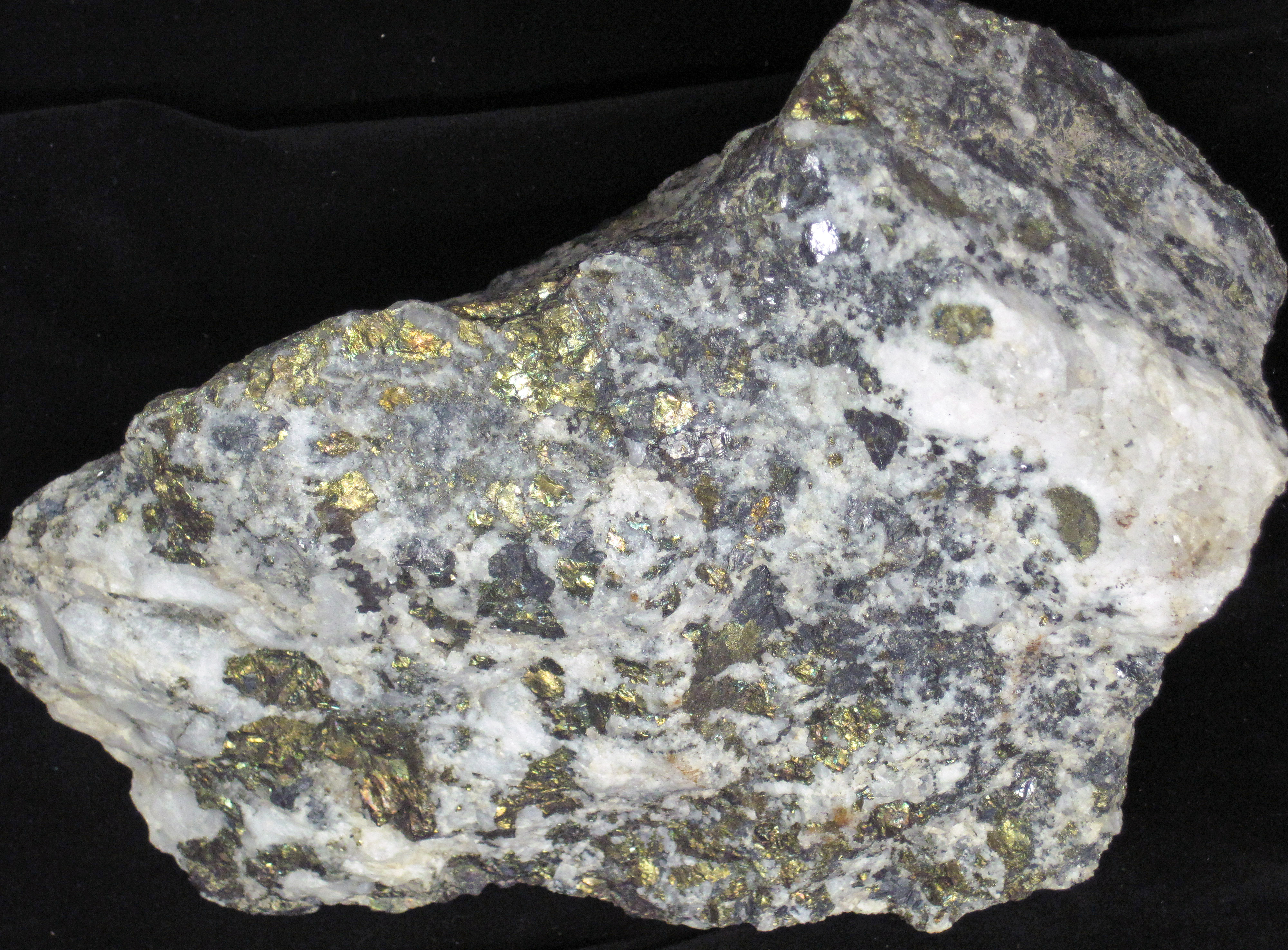 Chalcopyrite-quartz from the Tertiary of Colorado, USA. (public display, Durango & Silverton Narrow Gauge Railroad Museum, Durango, Colorado, USA) This is a sample of a polymineralic hydrothermal vein that has intruded volcanic rocks of southwestern Colorado's San Juan Volcanic Field. The abundant brassy gold masses are chalcopyrite (CuFeS - copper iron sulfide). The whitish material is quartz (SiO2 - silica). The grayish material is probably one or more sulfides - galena or tetrahedrite or petzite. This rock comes from the Idarado Mine, a lead-copper-zinc mine in the San Juan Mountains. Geology & age: Argentine Vein, San Juan Volcanic Field, mid-Tertiary Locality: Idarado Mine, ~2.7 air miles southwest of the town of Ironton, southern Ouray County, San Juan Mountains, southwestern Colorado, USA